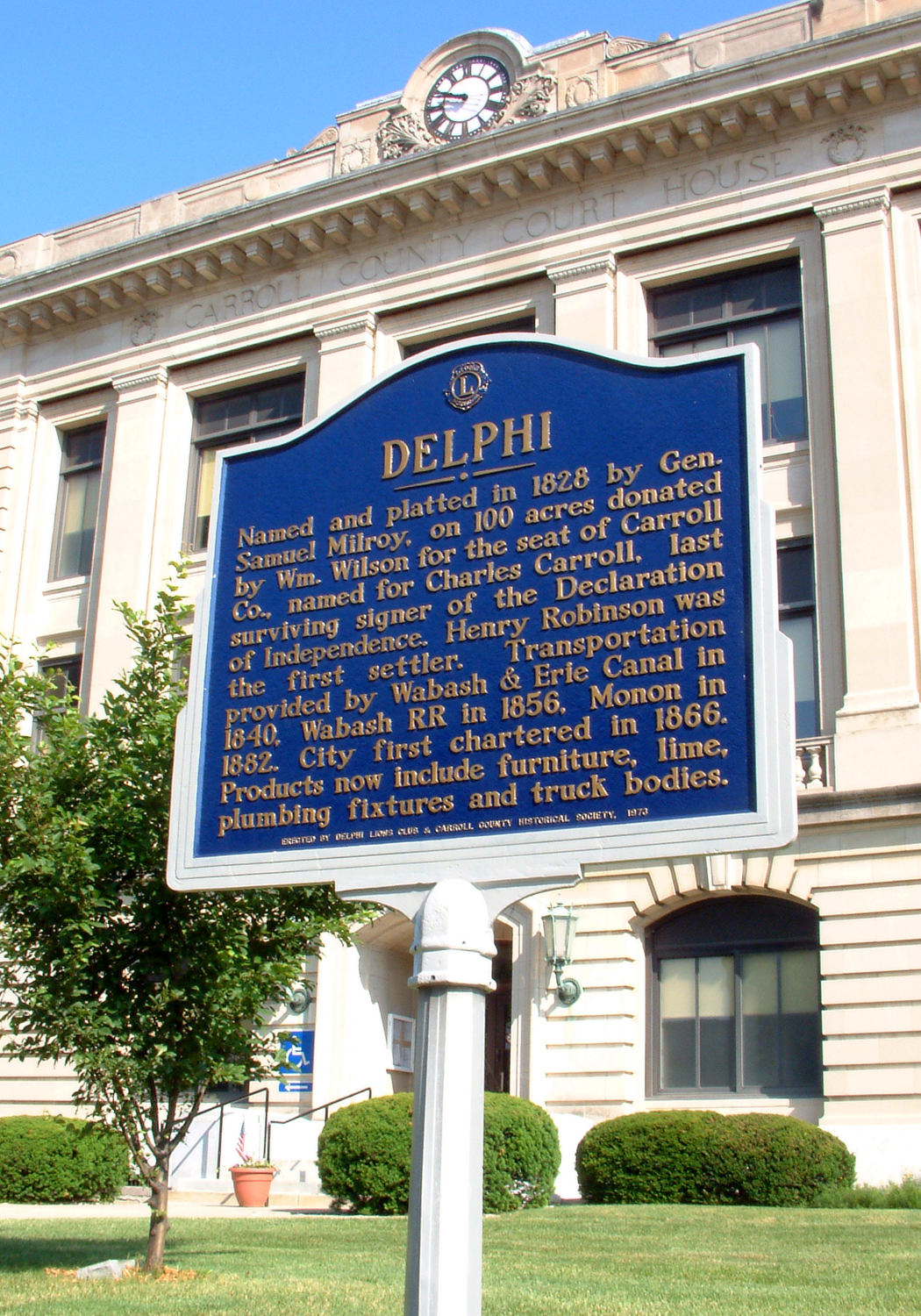 The historical marker at the Carroll County courthouse in Delphi, Indiana. It reads: Delphi Named and platted in 1828 by Gen. Samuel Milroy, on 100 acres donated by Wm. Wilson for the seat of Carroll Co., named for Charles Carroll, last surviving signer of the Declaration of Independence. Henry Robinson was the first settler. Transportation provided by Wabash & Erie Canal in 1840, Wabash RR in 1856, Monon in 1882. City first chartered in 1866. Products now include furniture, lime, plumbing fixtures and truck bodies.